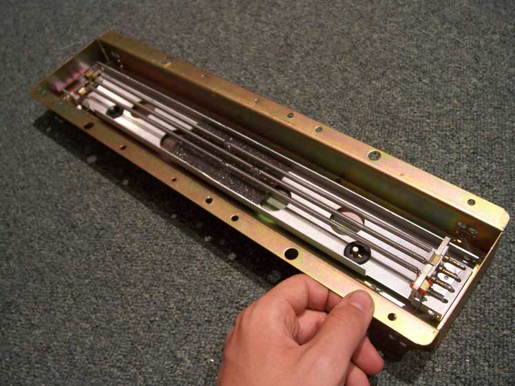 Spring reverb, consisting of 3 springs.